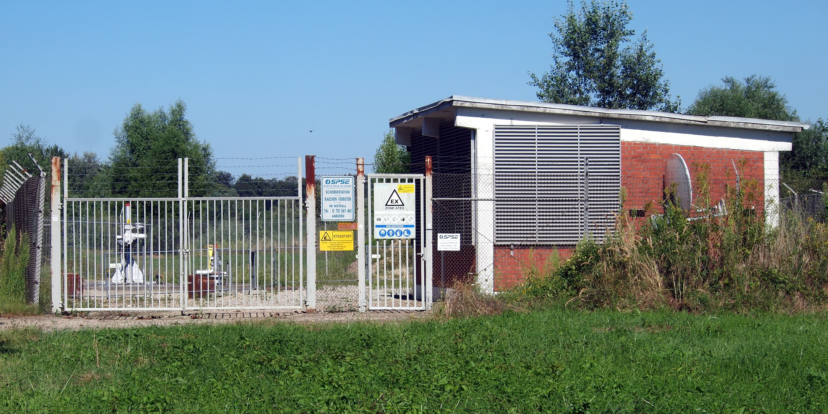 Valve station of the SPSE oil pipeline in Wörth at the location of a former refinery with warning signs about nitrogen filling